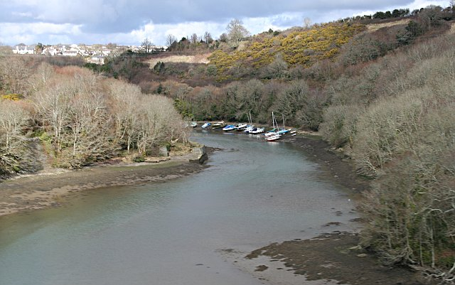 Forder Lake. Taken from a train crossing the viaduct over this tidal inlet.